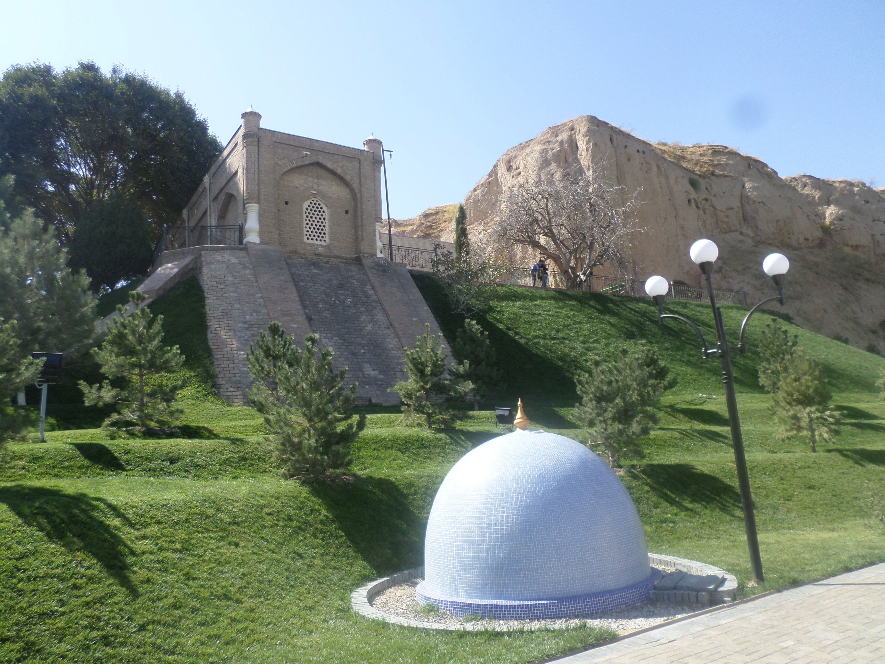 Mausoleum Khoja Daniyar